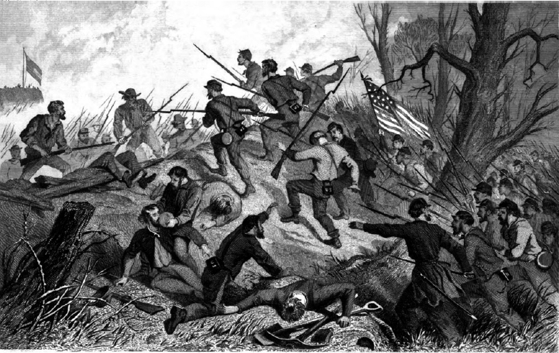 Charge of Iowa troops at fort Donelson